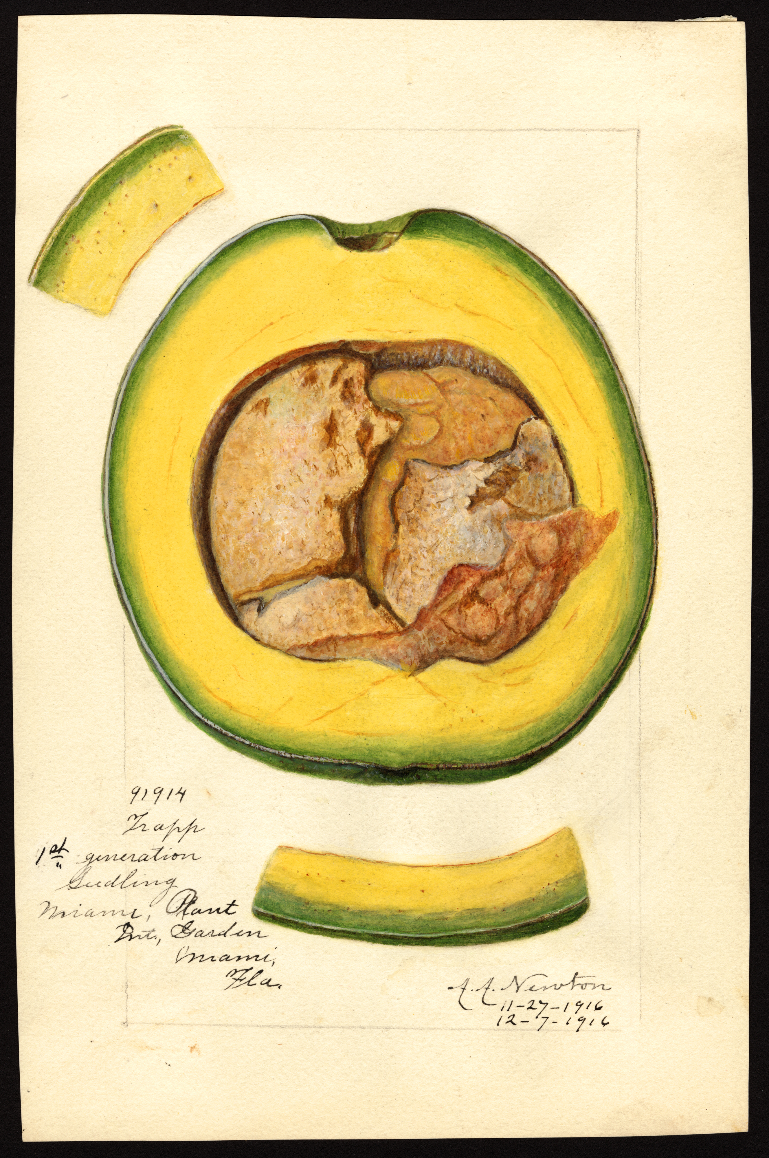 Image of the Trapp variety of avocados (scientific name: Persea), with this specimen originating in Miami, Dade County, Florida, United States. Source: U.S. Department of Agriculture Pomological Watercolor Collection. Rare and Special Collections, National Agricultural Library, Beltsville, MD 20705.